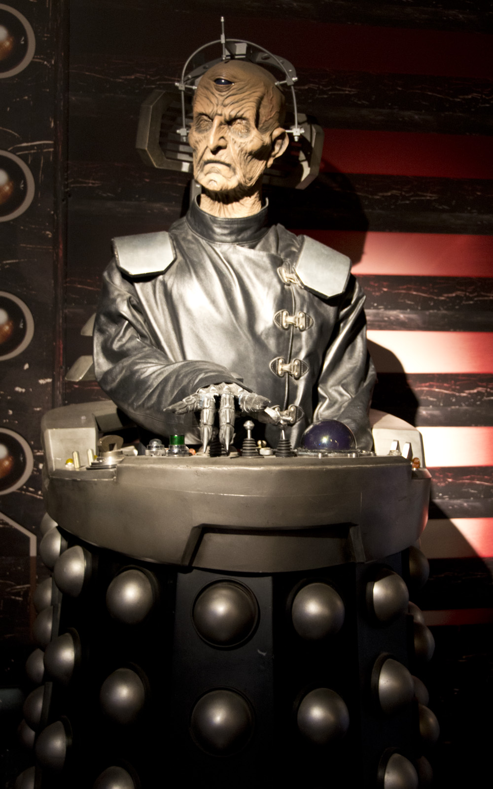 Doctor Who Experience